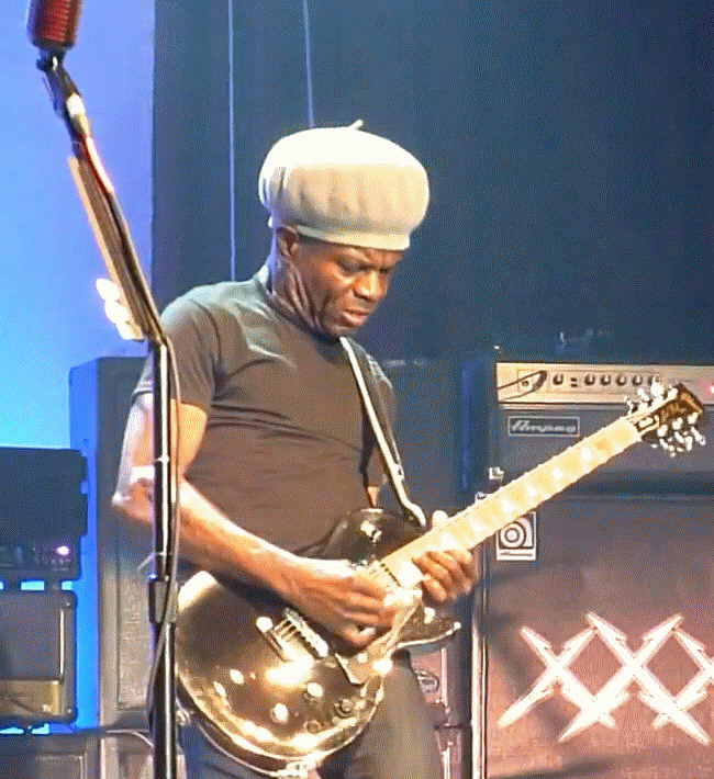 Lloyd grant